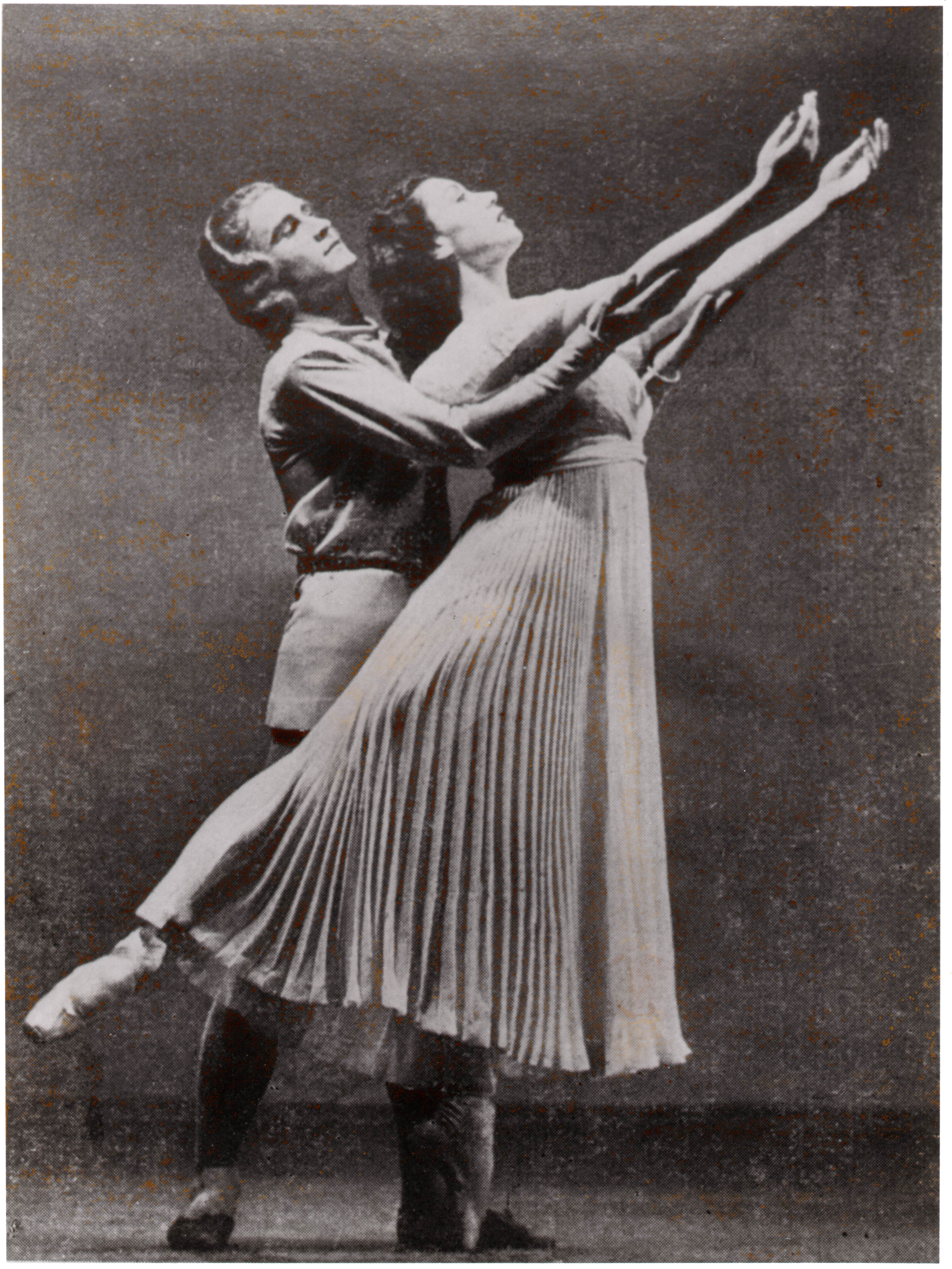 Ballerina Nina Youshkevitch and Zbigniew Kilinski, performers with the Balet Polski (Polish Ballet), appear in a pose from the ballet Chopin Concerto choreographed by Bronislava Nijinska. Warsaw, 1937